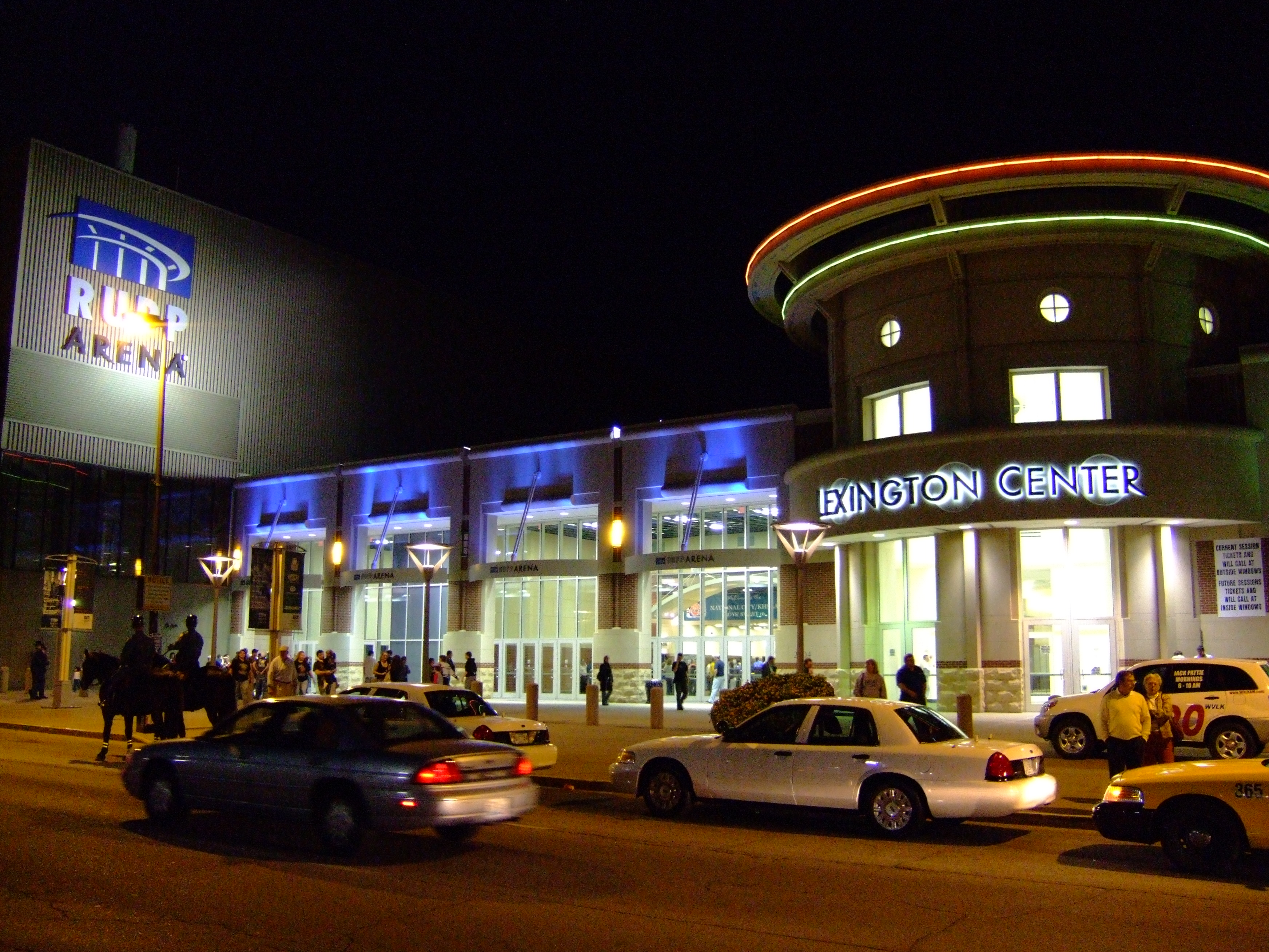 Rupp Arena in Lexington, Kentucky. Self made photo.